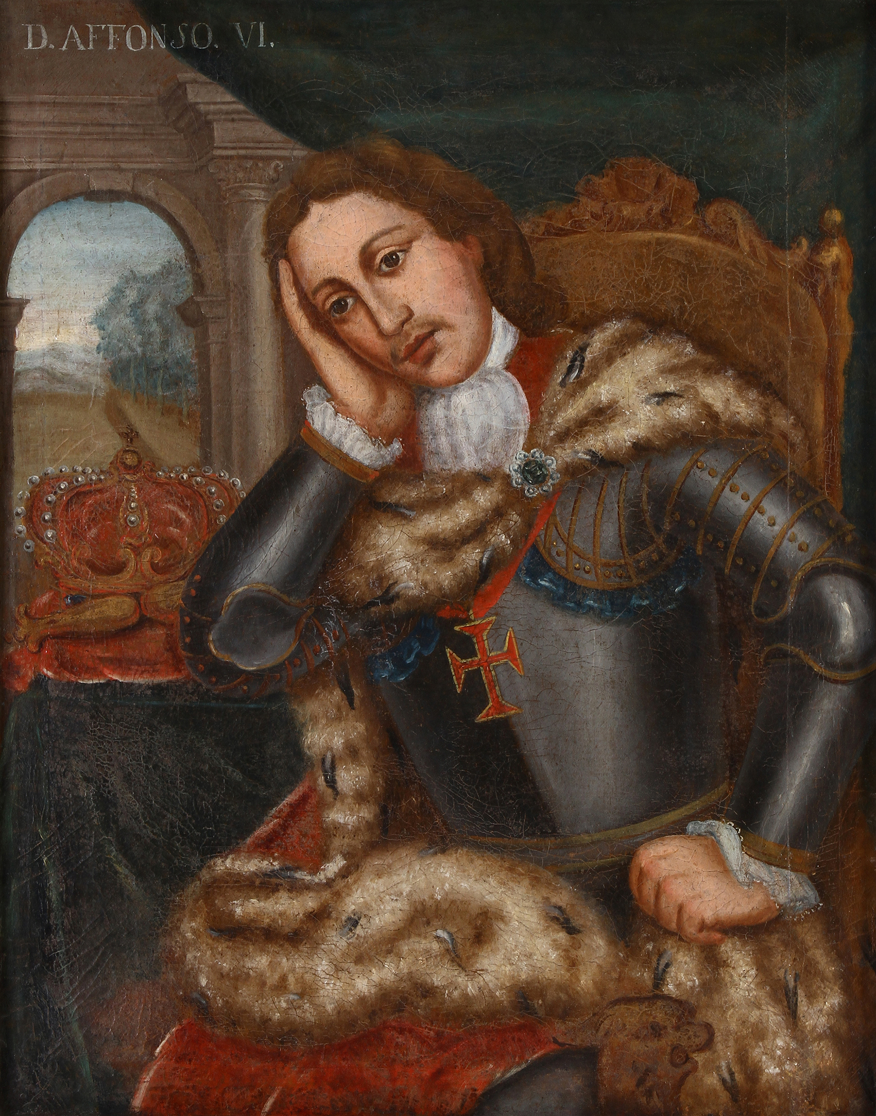 Afonso VI (1643-1683), King of Portugal and the Algarves (1656-1683), Regency (1656-1662; 1668-1683)